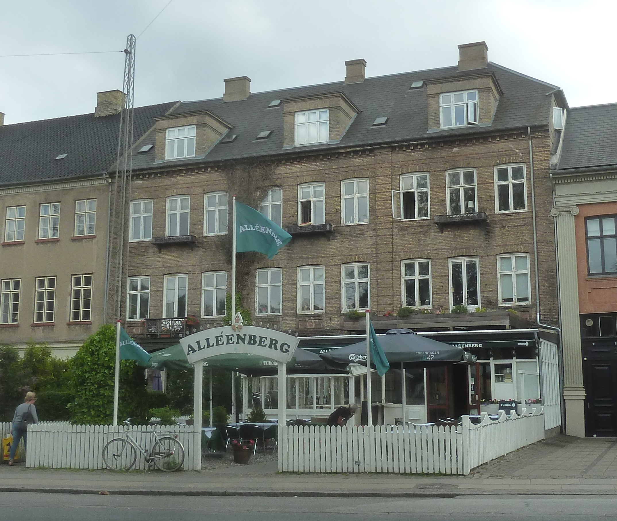 Allégade 4, Frederiksberg, Denmark